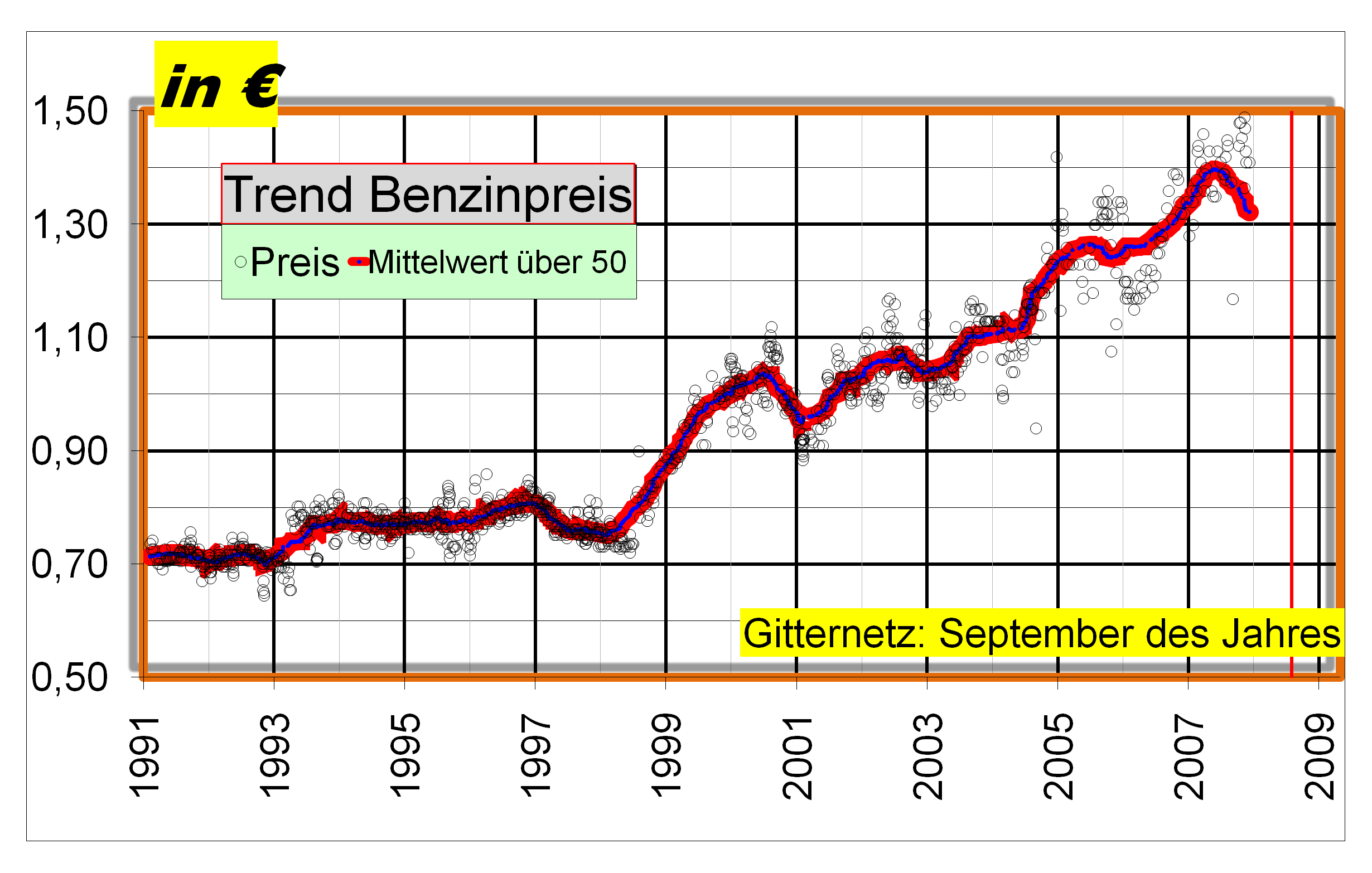 Statistic of prices for Gasoline in Germany in the Year 1991 - 2009